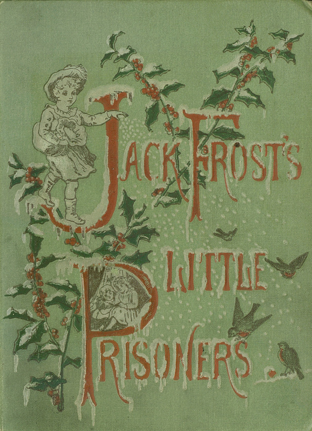 Book cover - originally published in 1887